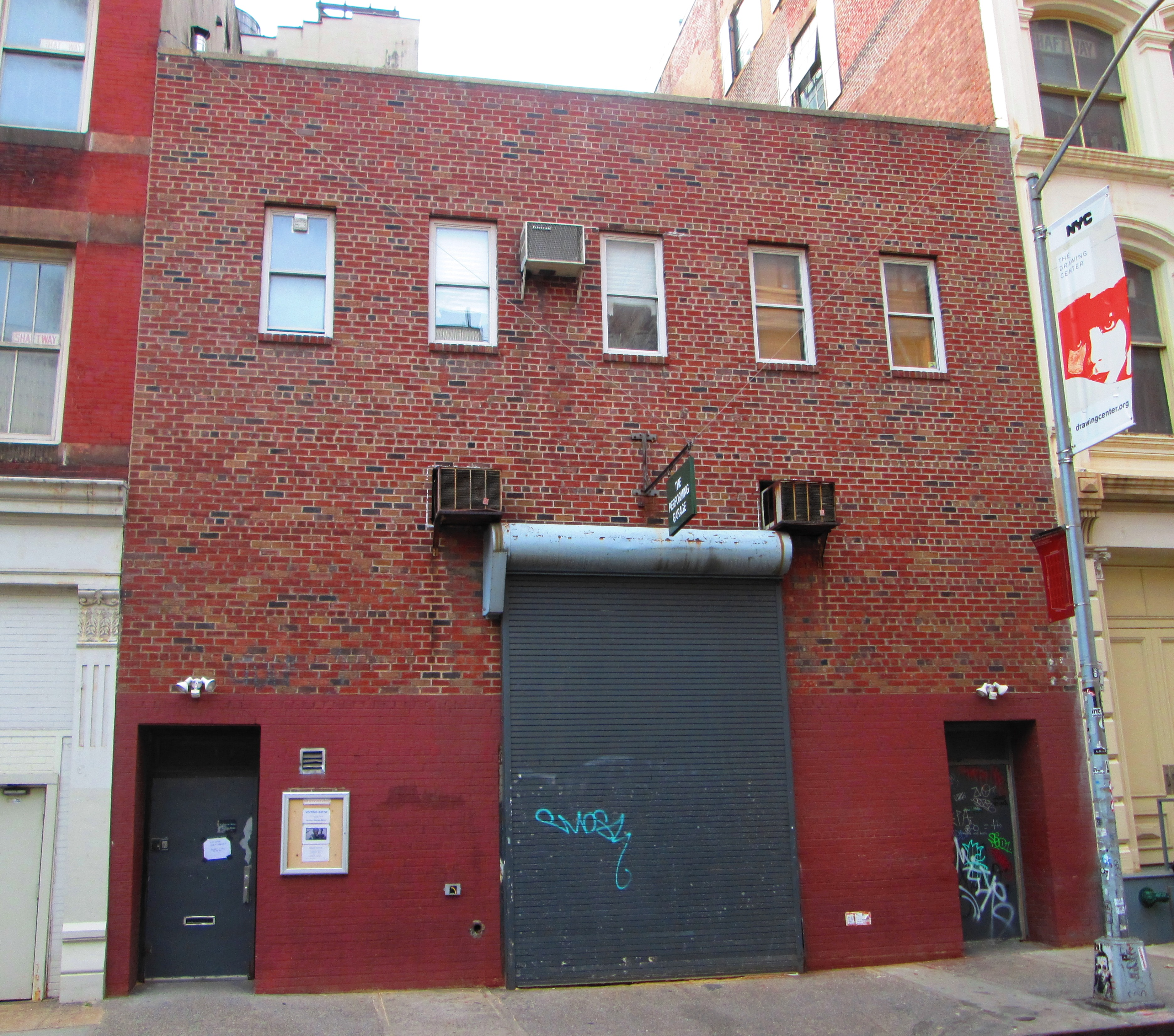 The Performing Garage at 33 Wooster Street between Grand and Broome Streets in the SoHo neighborhood of Manhattan, New York City is the home of the Wooster Group, founded in 1975. The garage itself was built in 1868 and was designed by William Shears. It is located within the SoHo - Cast Iron Historic District. (Source: "NYCLPC SoHo - Cast-Iron Historic District Designation Report")